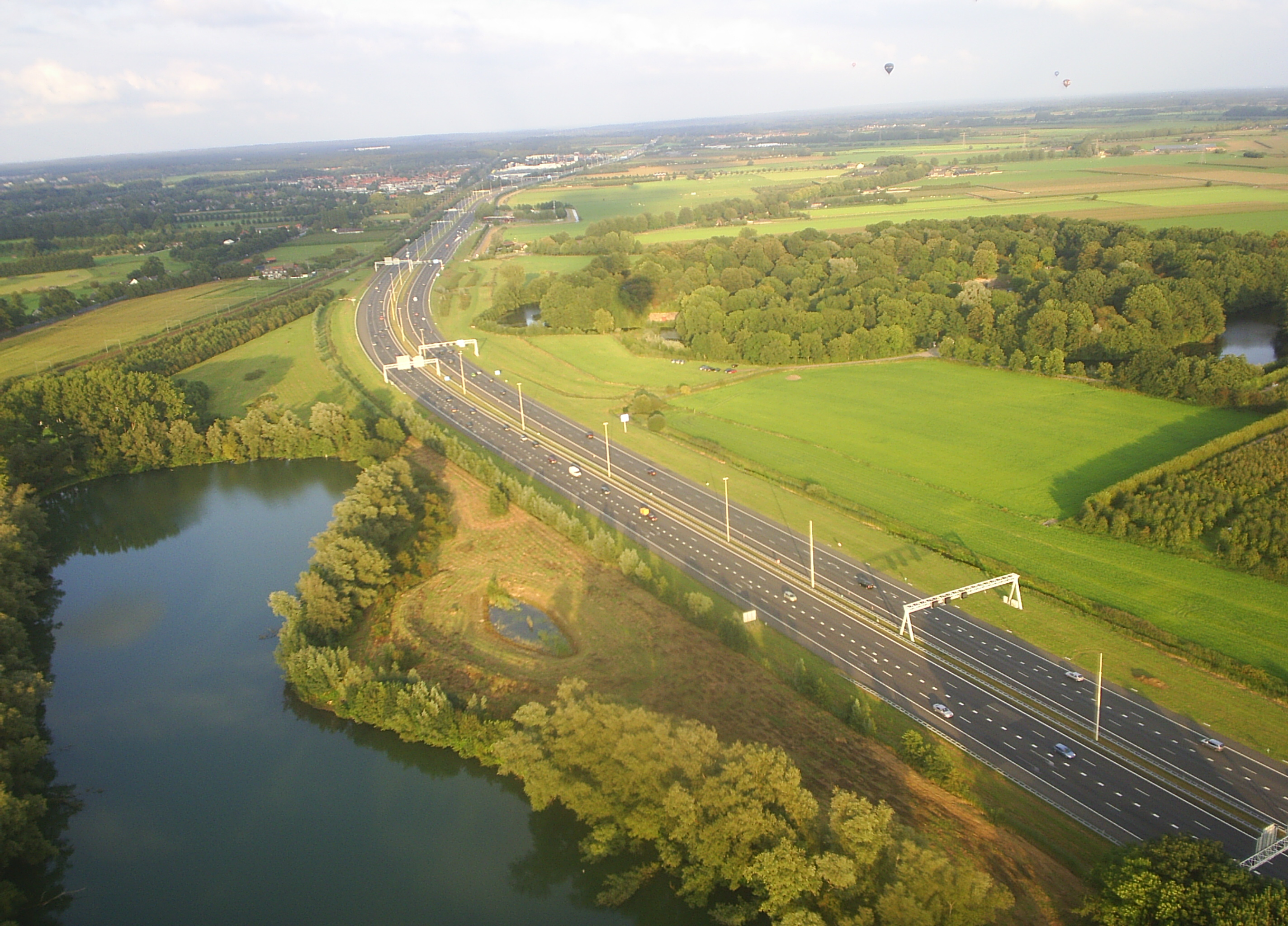 A12, Bunnik, The Netherlands